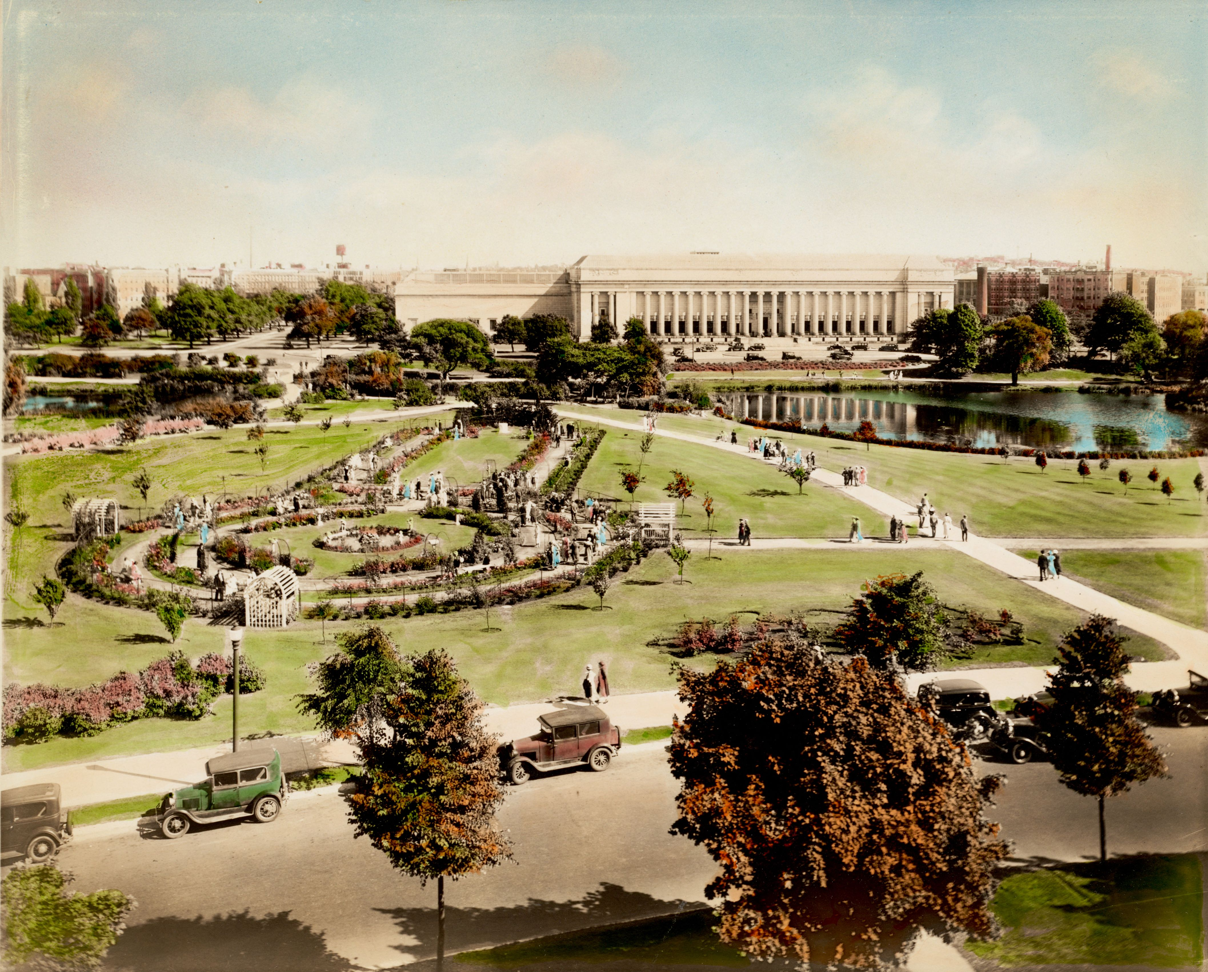 A hand-colored gelatin silver print of the Rose Garden and Museum of Fine Arts in the Back Bay Fens in the 1920s